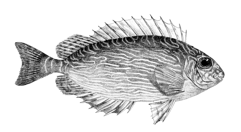 Teuthis marmorta (=Siganus spinus).